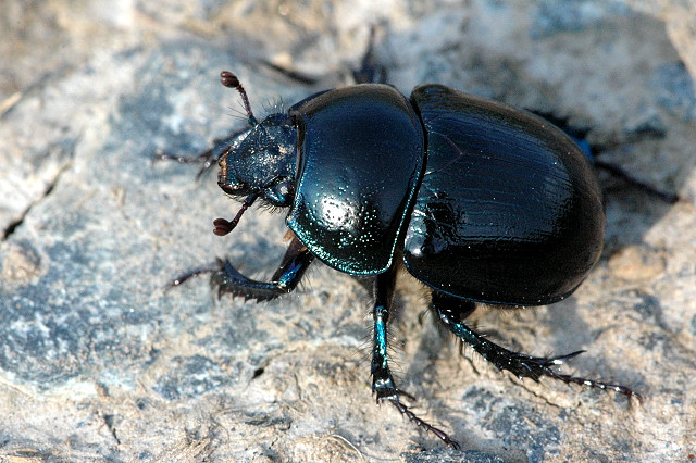 Picture taken in Commanster, Belgian High Ardennes . Species: Anoplotrupes stercorosus